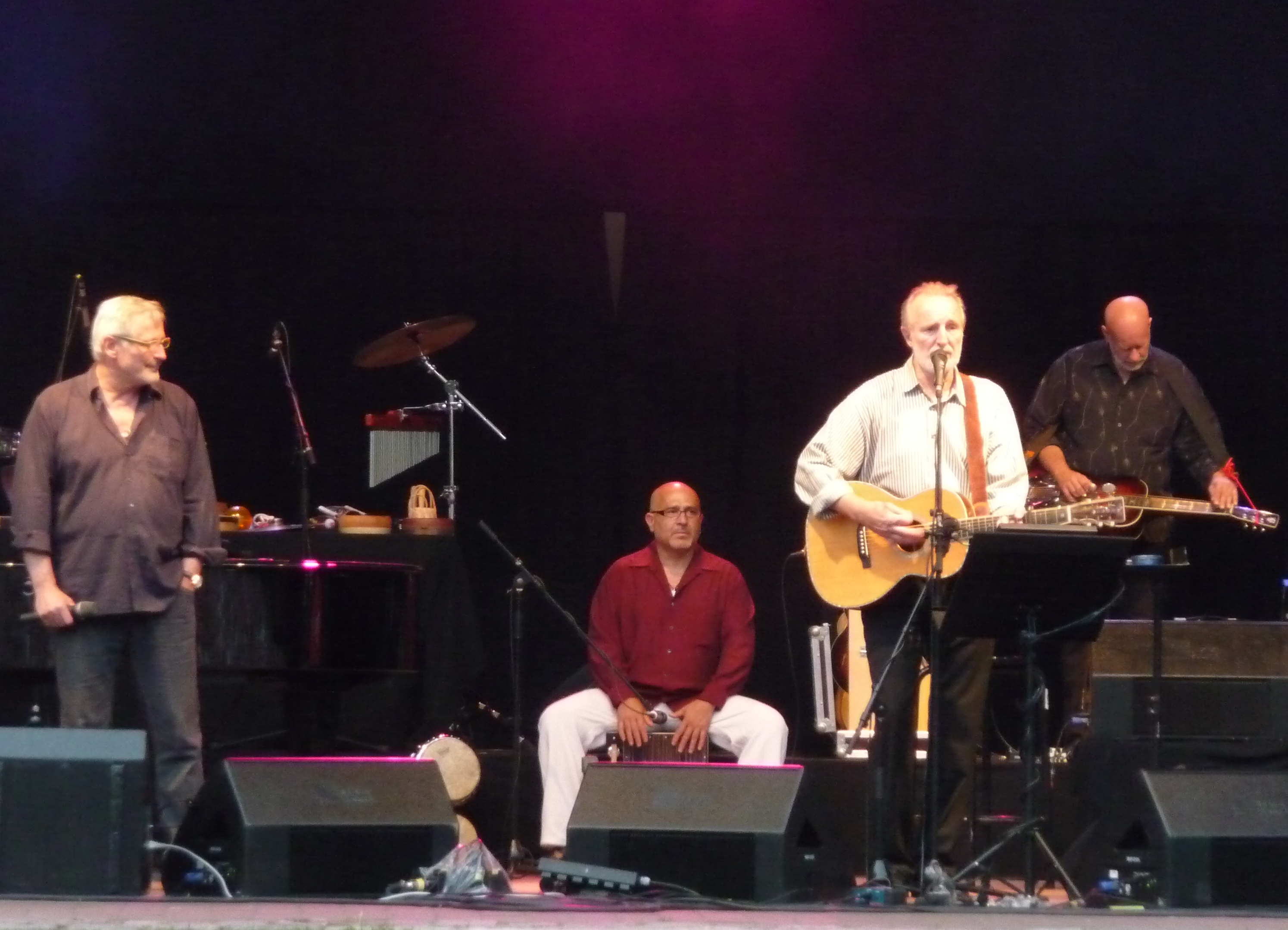 Concert of Konstantin Wecker & Hannes Wader "Kein Ende in Sicht" on 1st July 2010 in municipal park in Hamburg/Germany